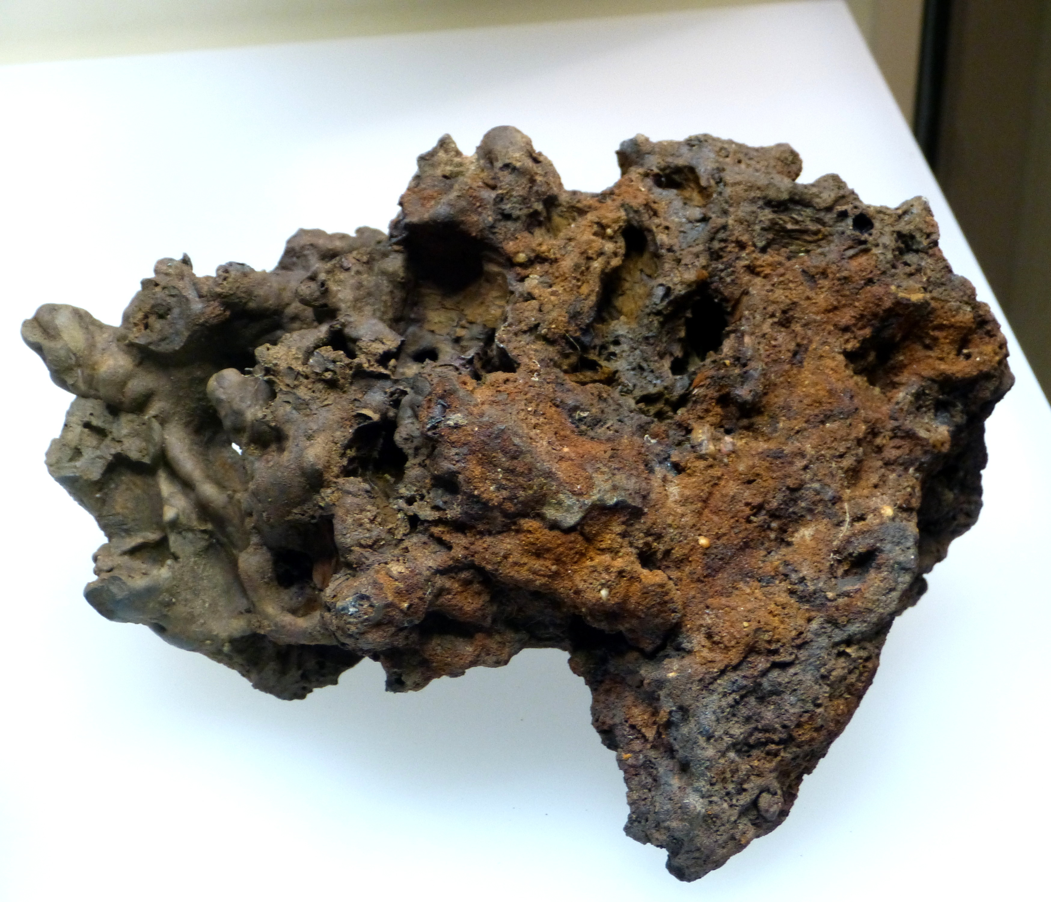 Brandenburg an der Havel ( Germany ) . Archaeological Museum of the state of Brandenburg - Iron Age Gallery: Iron slag ( 3rd-1st century BC ), from Glienick.